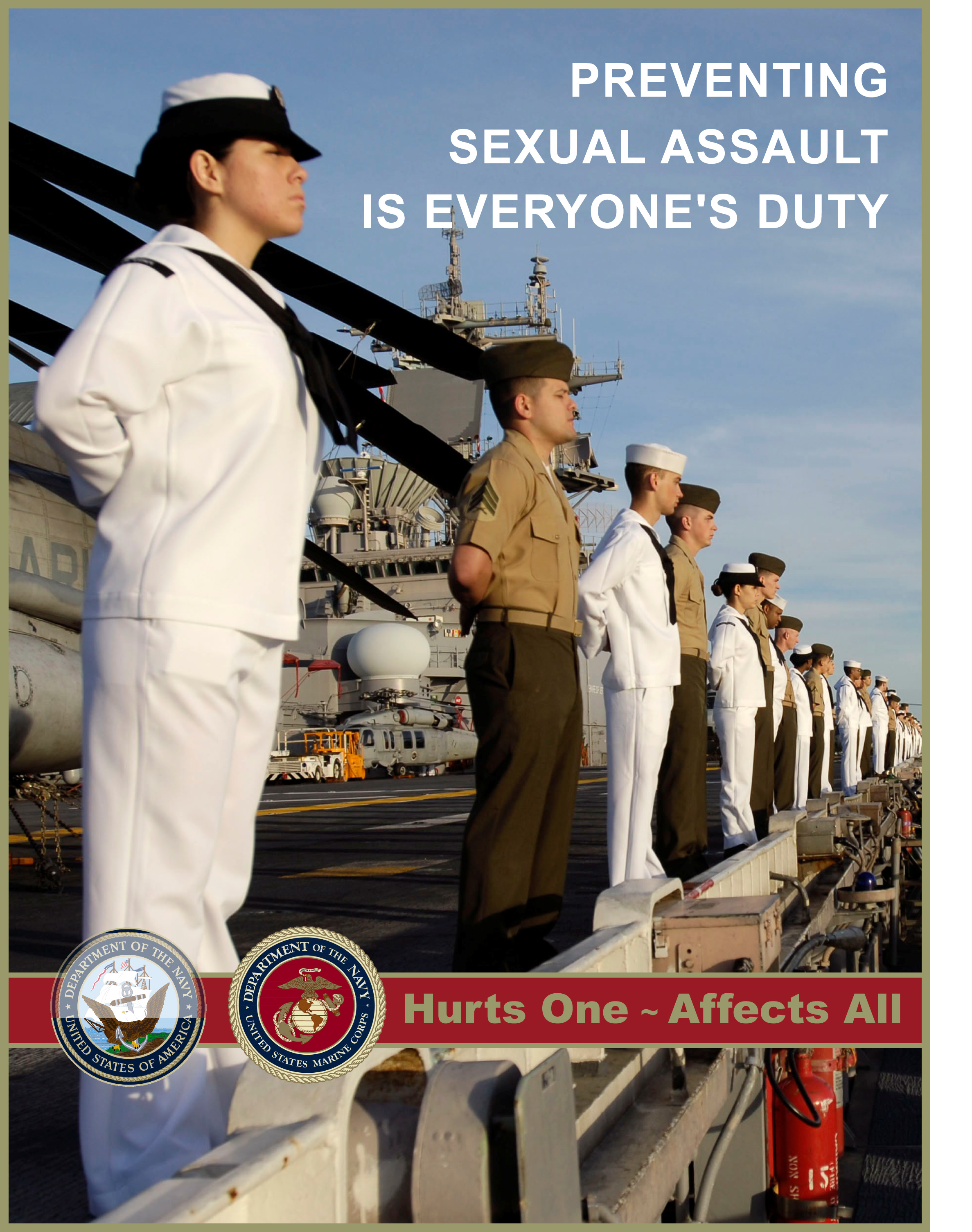 WASHINGTON (March 26, 2010) A poster supporting the Sexual Assault Prevention and Response (SAPR) program. The SARC summit, hosted by the Department of the Navy in New Orleans, La., was held to bring awareness to the Sexual Assault Prevention and Response (SAPR) program, which replaced the former Sexual Assault Victim Intervention (SAVI) program in November 2009. (U.S. Navy photo illustration/Released)